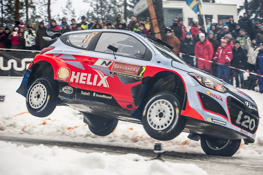 Rally Sweden 2014 Colin's Crest Arena,Hyundai Motorsport,Hyundai i20 WRC,Motorsport,Nicolas Gilsoul,Rally,Rally Sweden,Rallye,Rallye Schweden,SS19,Thierry Neuville,Vargäsen 1,WP19